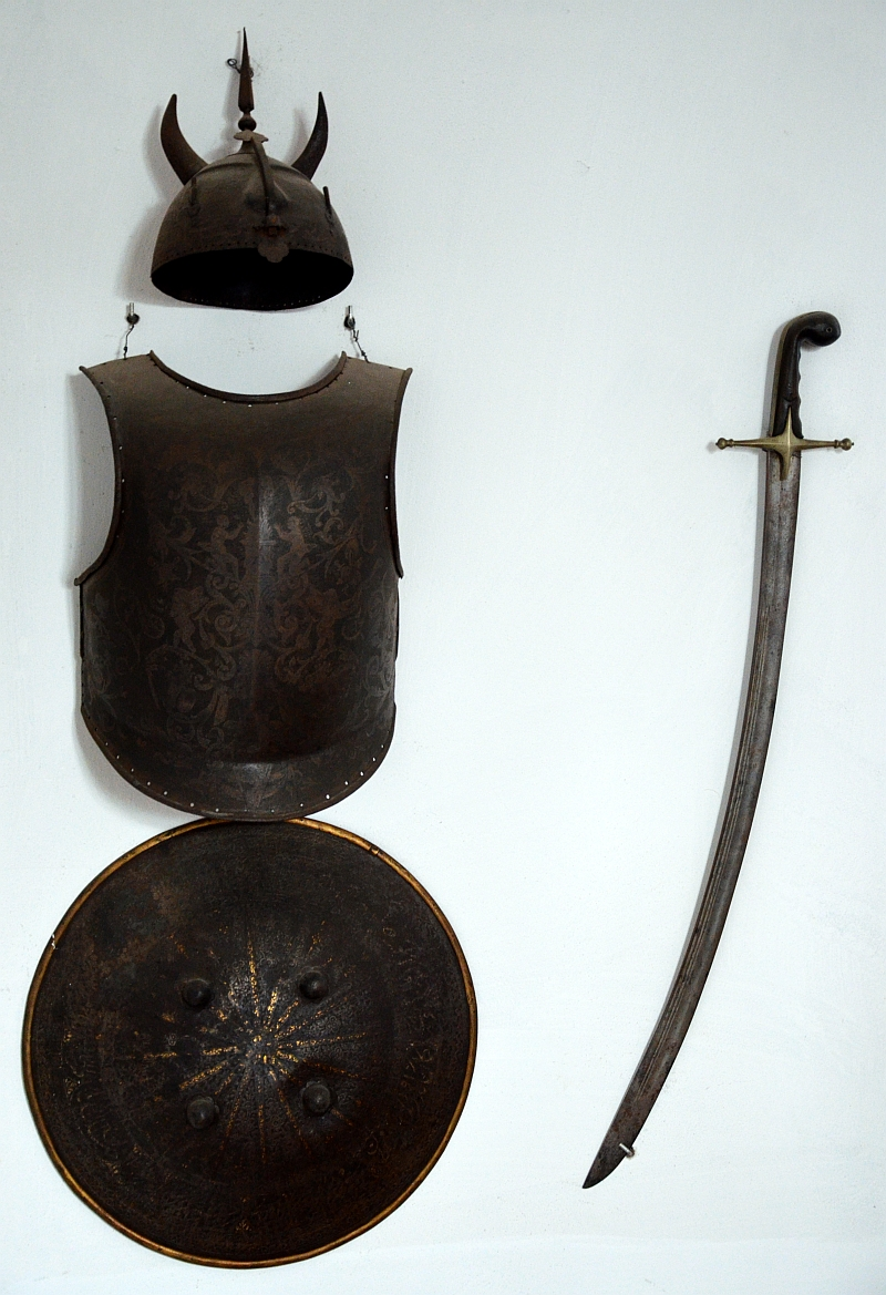 Weapons in the Historical Museum in Sanok